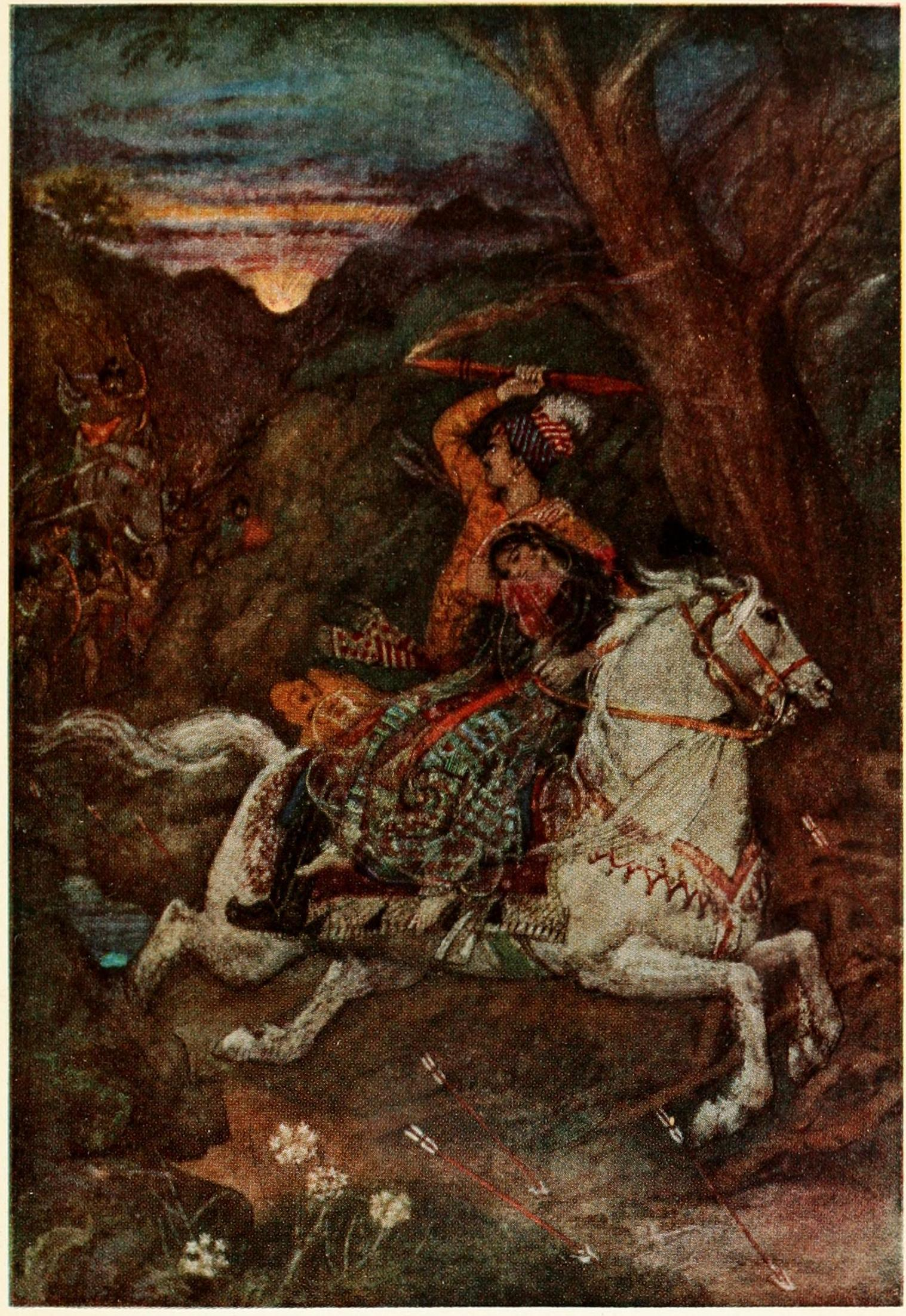 Author: Monro, W. D Publisher: New York : Thomas Y. Crowell Company Possible copyright status: NOT_IN_COPYRIGHT Language: English Call number: 600940 Digitizing sponsor: MSN Book contributor: New York Public Library Collection: newyorkpubliclibrary; iacl; americana Notes: orange pages from unnumbered illustrations.